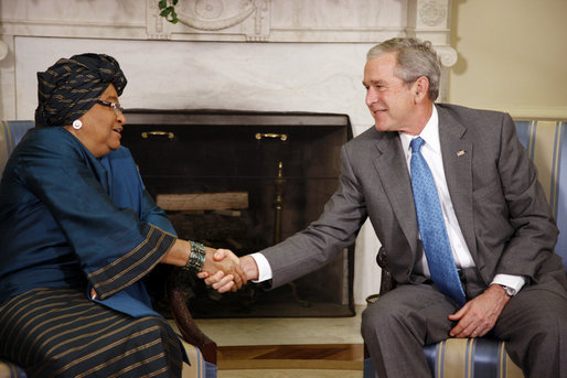 President George W. Bush shakes hands with Liberia President Ellen Johnson Sirleaf following their meeting Wednesday, Oct. 22, 2008, in the Oval Office at the White House.